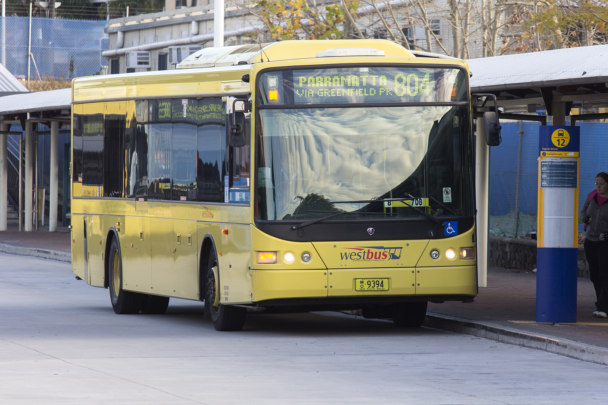 Westbus (mo 9394) Volgren 'CR228L' bodied Scania K94UB at Liverpool Interchange.